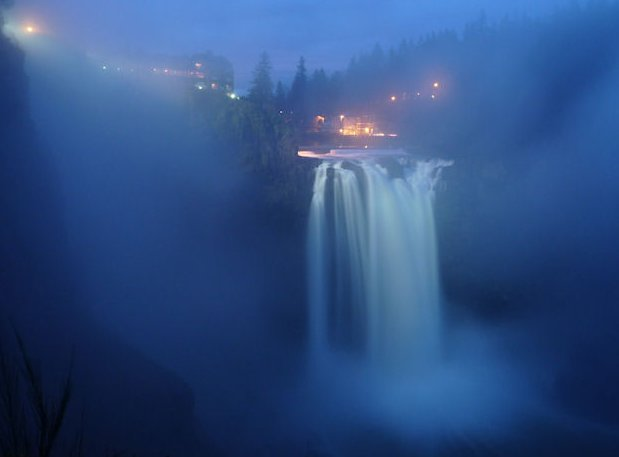 Snoqualmie falls just before the instant before dawn.